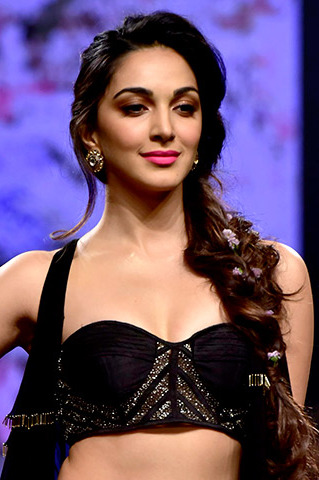 Kiara Advani walked the ramp at the Lakme Fashion Week 2018, Feb 5.